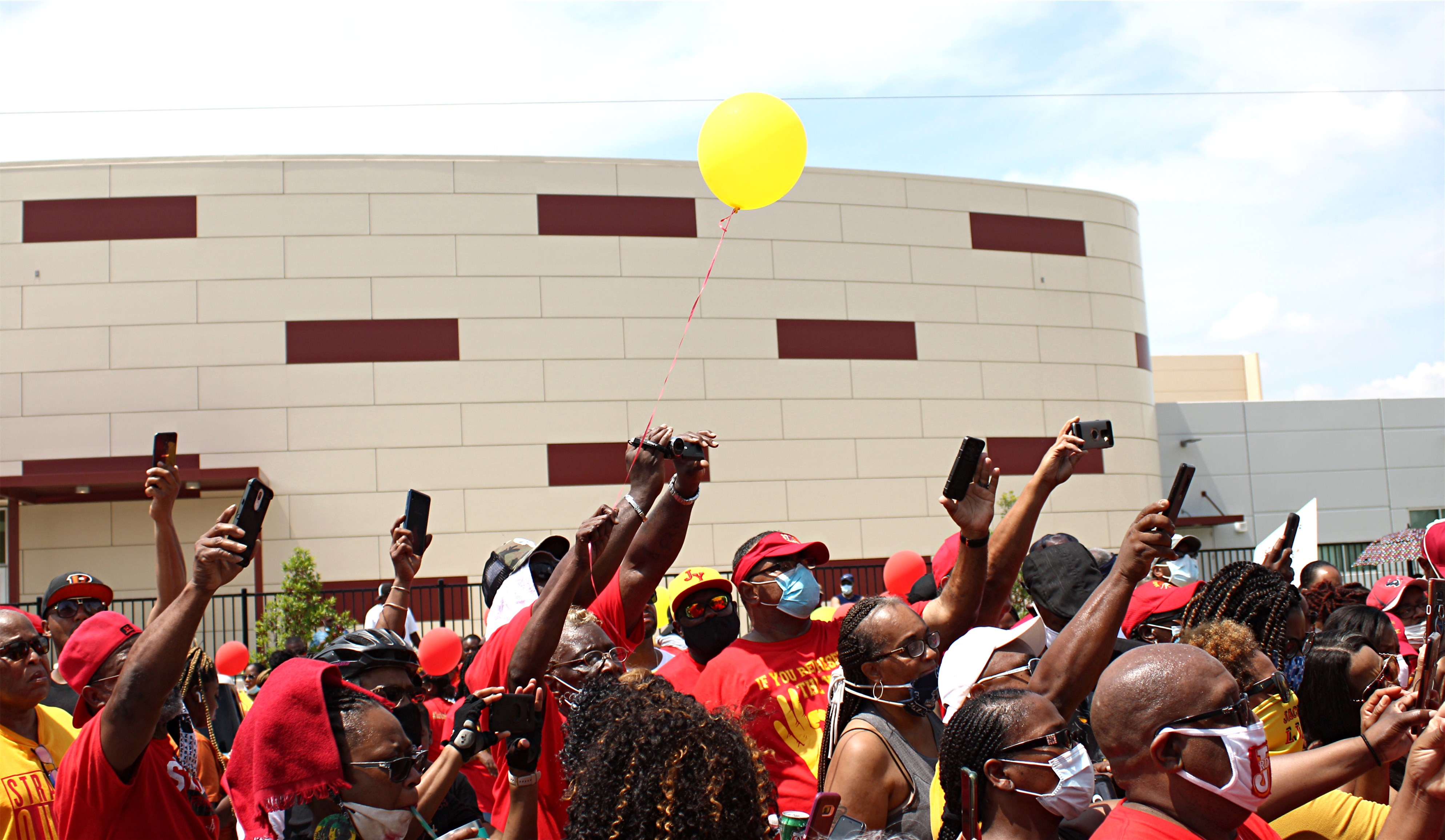 I Can’t Breathe #88 - JY Honors George Floyd Jack Yates High School Alumni parade and vigil honoring alumnus George Floyd, class of 1993. 5-30-20 Houston, TX jy4life